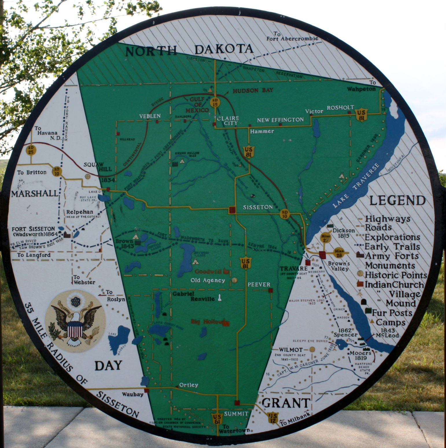 Sign with Map of the Sisseton-Wahpeton Lake Traverse Indian Reservation in South Dakota.